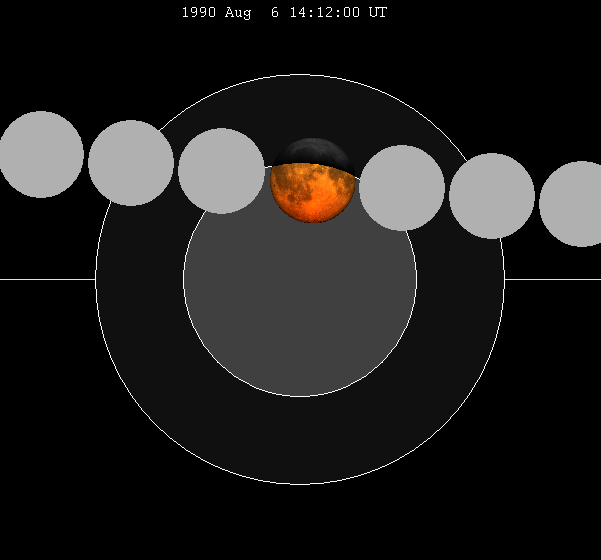 August 1990 lunar eclipse chart of moon's partial lunar eclipse path through the earth's shadow. thumb